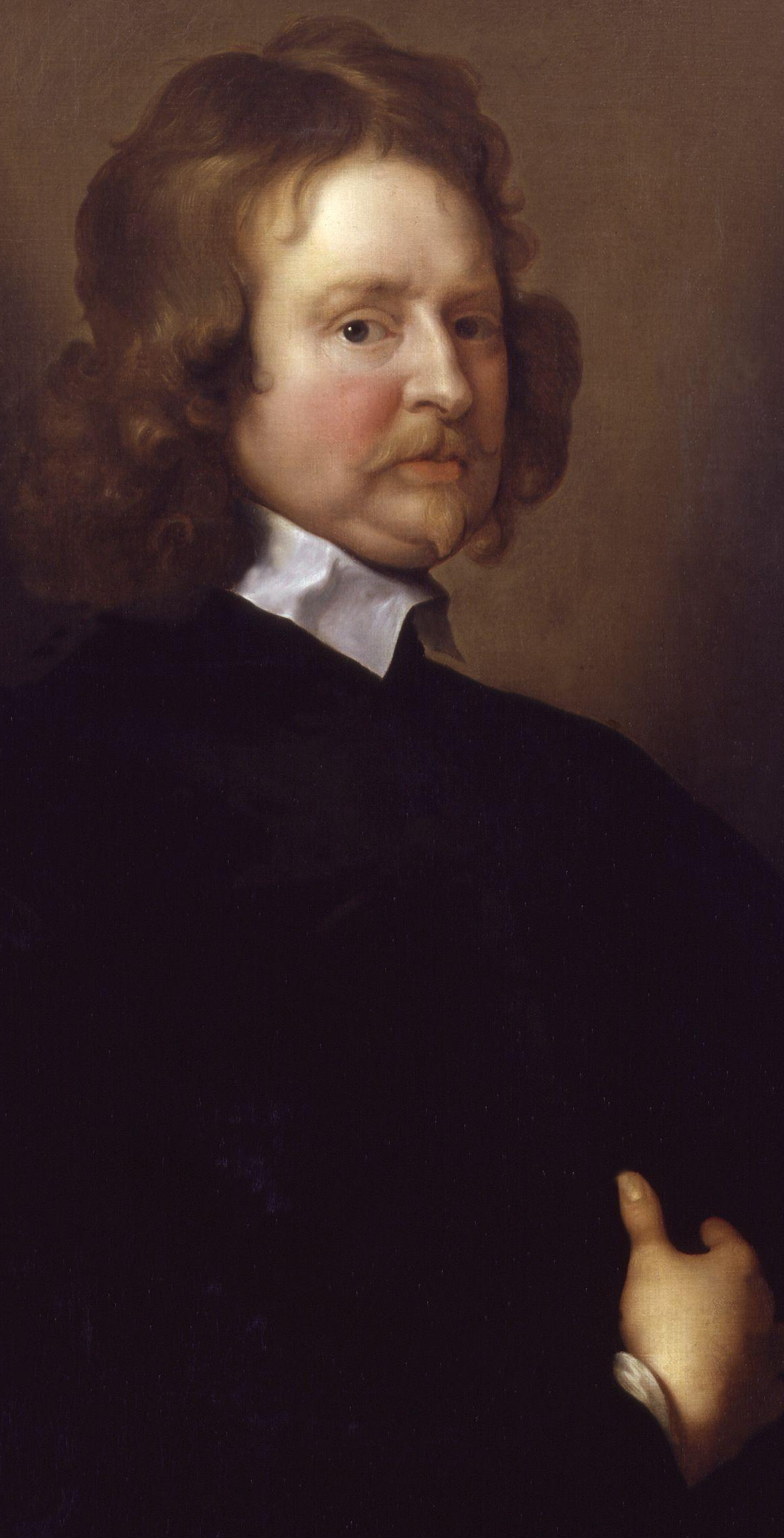 Edward Hyde, 1st Earl of Clarendon, by Adriaen Hanneman (died 1671). All images in this batch have been confirmed as author died before 1939 according to the official death date listed by the NPG.